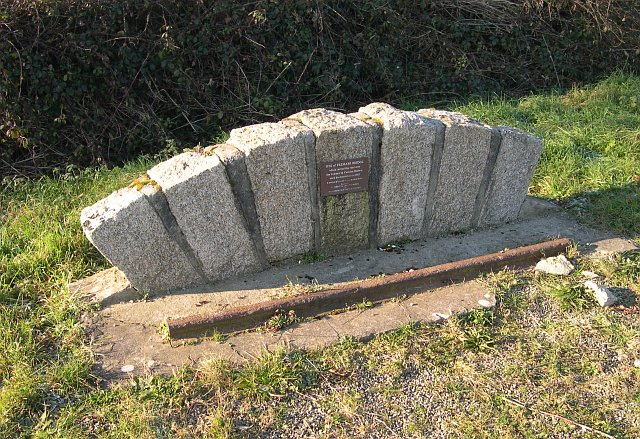 Memorial to a Lost Railway Line. This roadside memorial commemorates the closed Liskeard and Caradon Railway, all trace of which has disappeared at this point which used to be the site of the Tremabe Bridge carrying the road over the railway. The memorial contains a section of track from the railway.